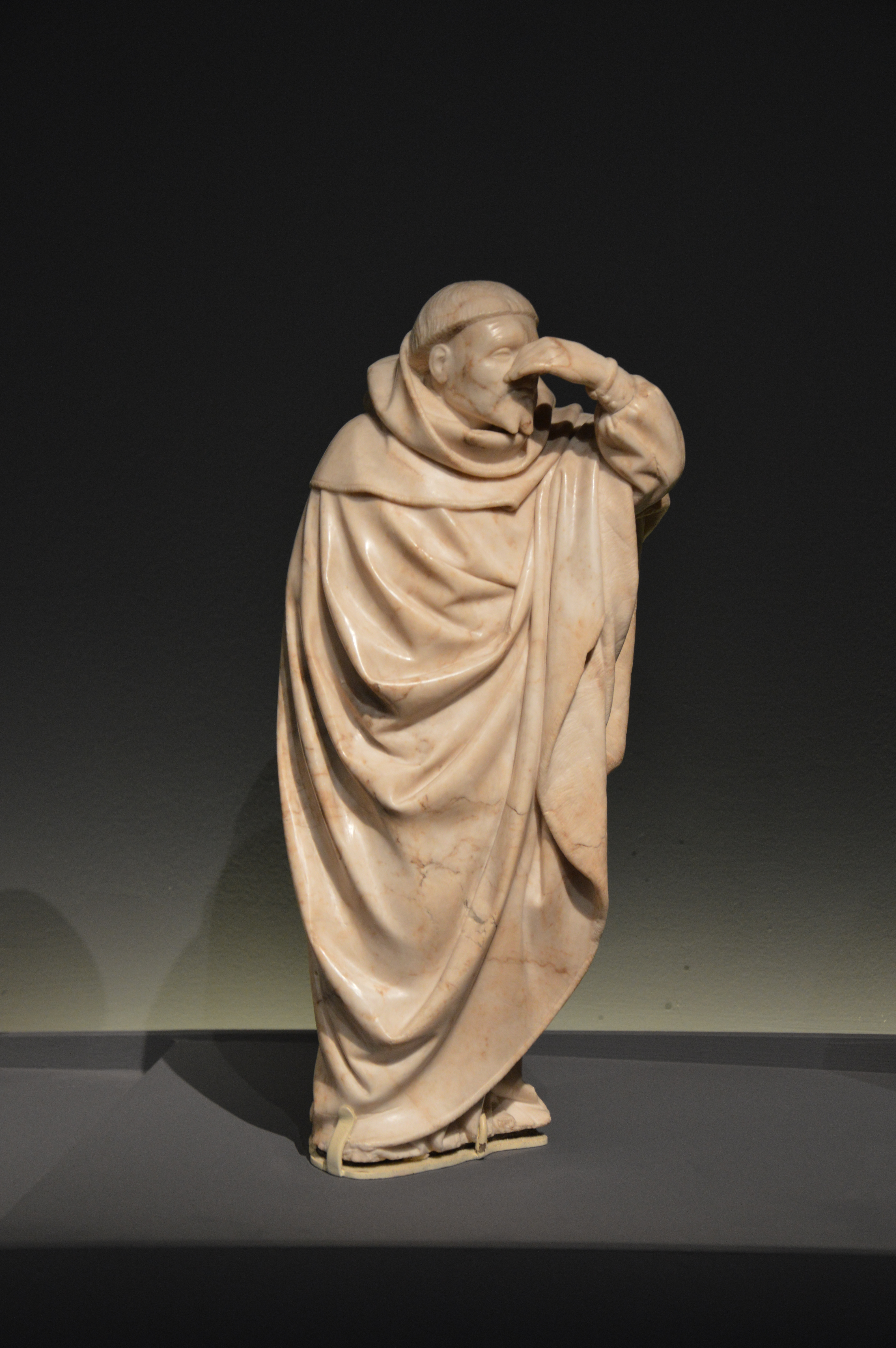 Mourner from the tomb of John the Fearless - Jean sans Peur. No 64.